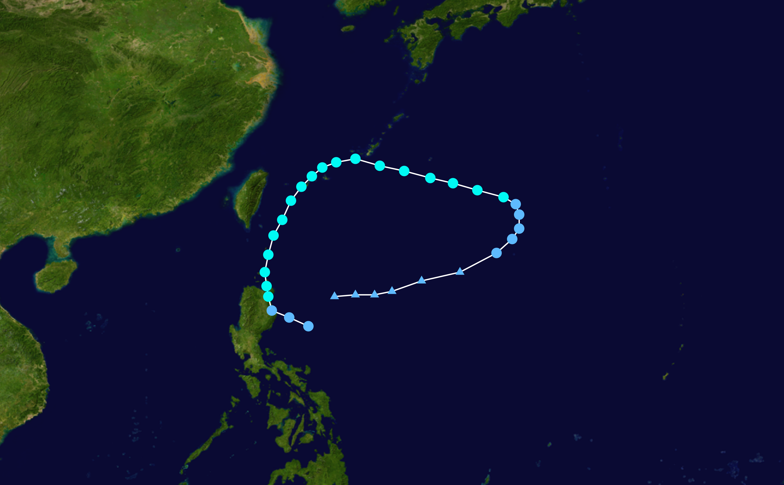 Track map of Tropical Storm Bopha of the 2000 Pacific typhoon season. The points show the location of the storm at 6-hour intervals. The colour represents the storm's maximum sustained wind speeds as classified in the Saffir–Simpson scale (see below), and the shape of the data points represent the nature of the storm, according to the legend below. Saffir–Simpson scale Tropical depression≤38 mph≤62 km/h Category 3111–129 mph178–208 km/h Tropical storm39–73 mph63–118 km/h Category 4130–156 mph209–251 km/h Category 174–95 mph119–153 km/h Category 5≥157 mph≥252 km/h Category 296–110 mph154–177 km/h Unknown Storm type Tropical cyclone Subtropical cyclone Extratropical cyclone / Remnant low / Tropical disturbance / Monsoon depression